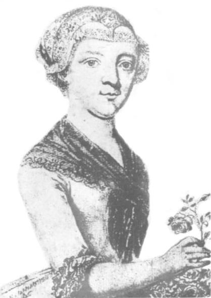 Maria Anna Thekla Mozart, nicknamed Bäsle, (1758–1841): Self portrait